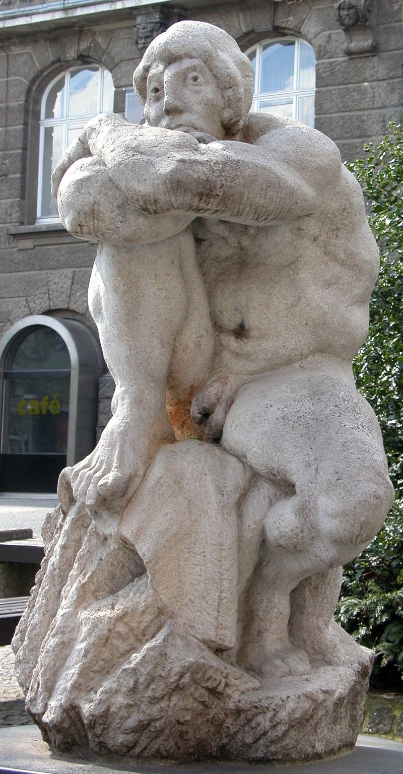 Brunswick, Germany: Sculpture by Jürgen Weber in front of the Städtisches Museum (Municipal Museum).